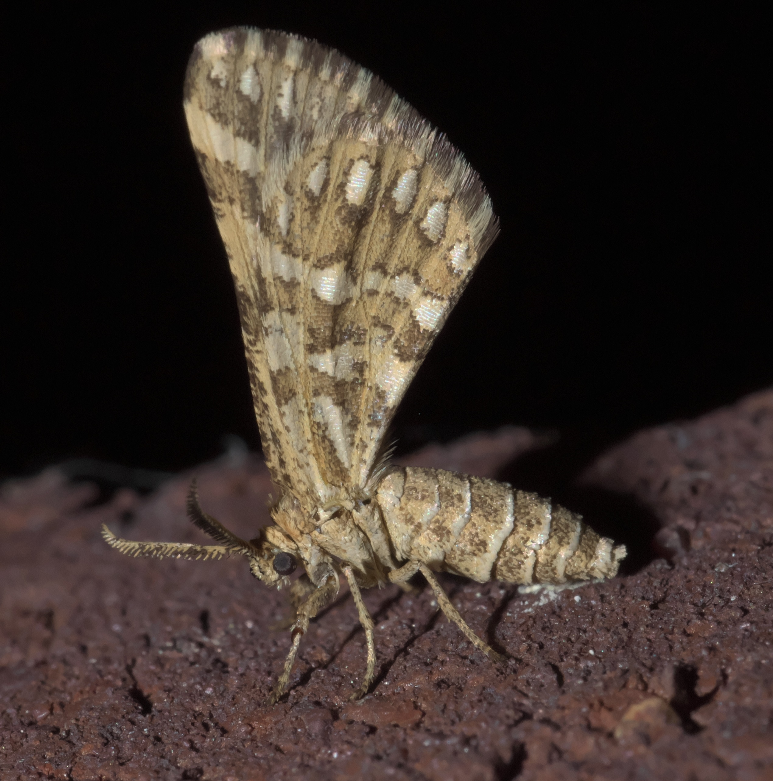 Fernaldella fimetaria, Green Broomweed Looper - Hodges #6420, ID Confidence: 94